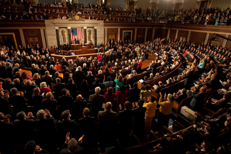 President Barack Obama addresses a joint session of the United States Congress in the chamber of the House of Representatives at the United States Capitol on 24 February 2009.